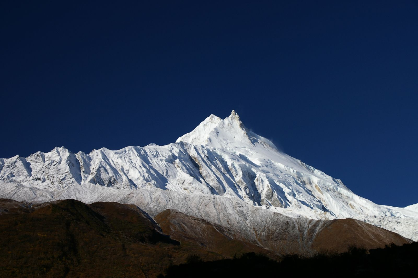 Manaslu, Nepal, Himalaya